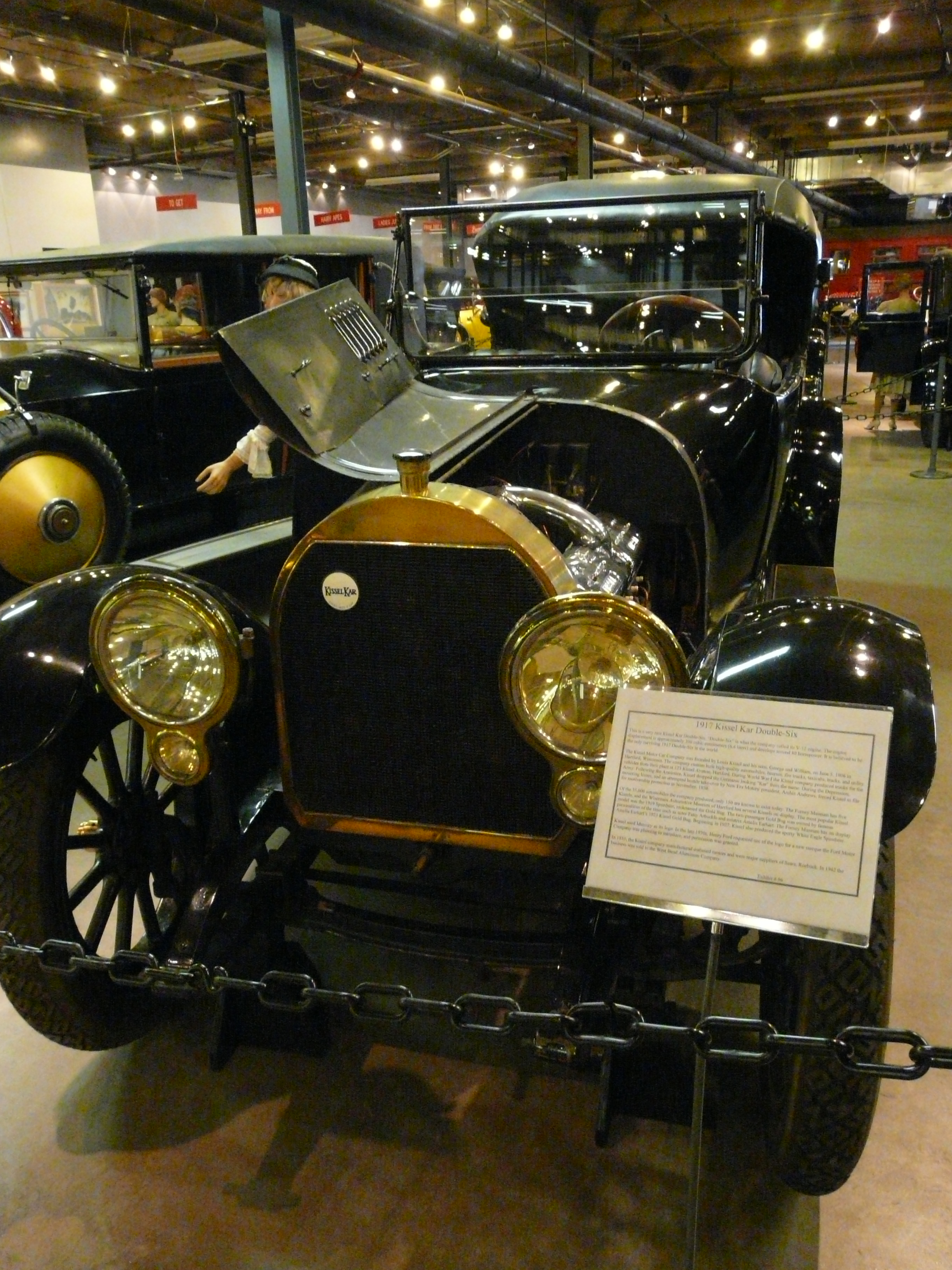 1917 Kissel car double-six Denver, summer 2012